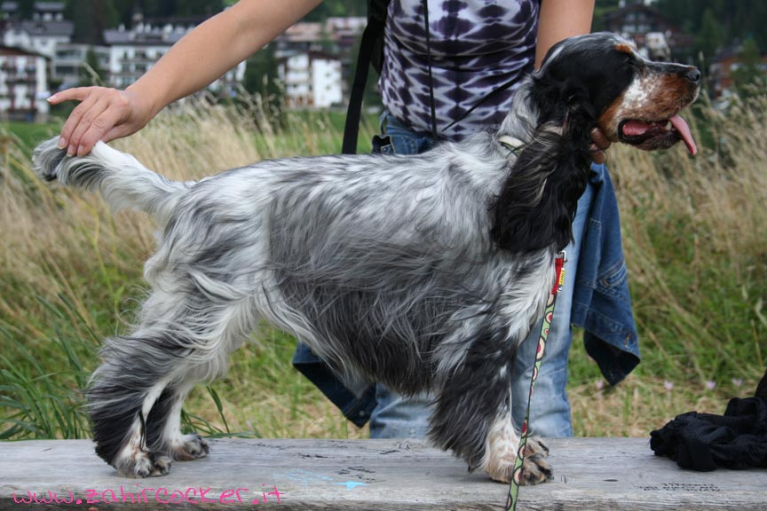 Cocker Spaniel Inglese tricolore roano